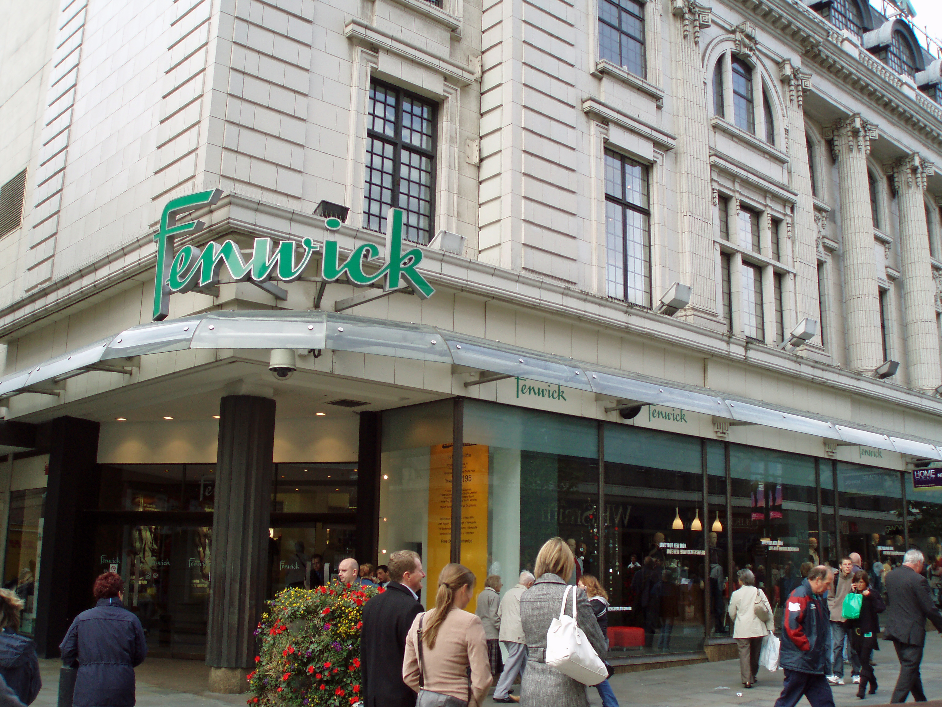 This is an image of one of the Northumberland Street entrances of the Fenwick department store in Newcastle upon Tyne, England